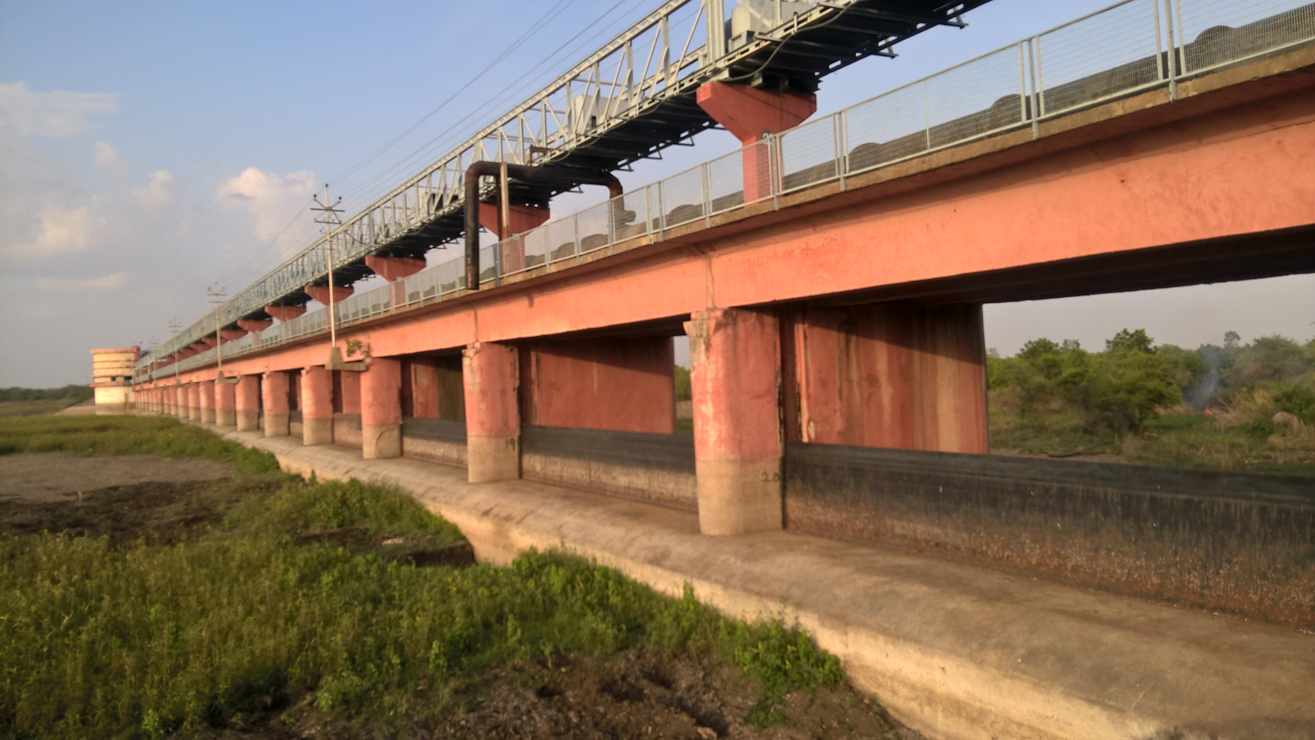 This pic is of a Reservoir called Manjeera Dam at sangareddy